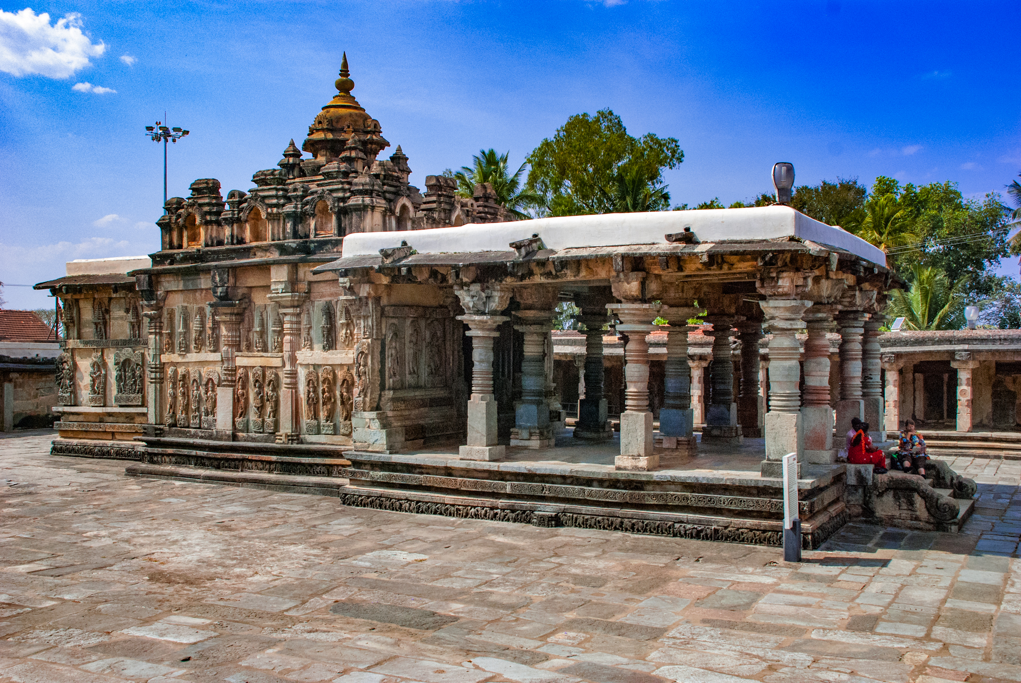 Hoysala Architectures - The Ranganayaki temple, a minor shrine in the Chennakeshava temple complex, Belur, a minor shrine in the Chennakeshava temple complex, Belur